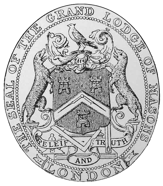 Seal used by Premier Grand Lodge of England on their earliest Masonic certificates.